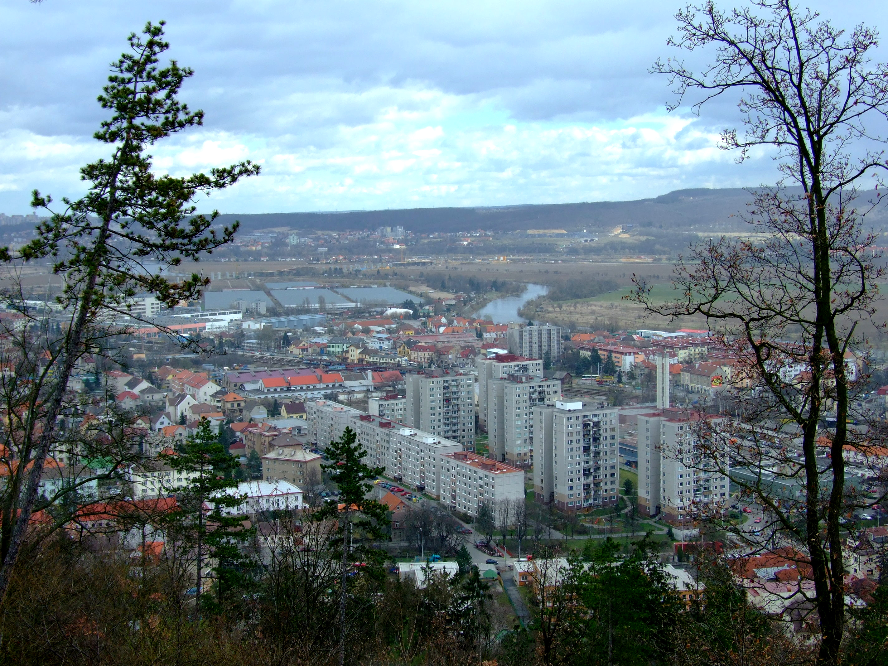 Panoramatic view of Prague-Radotín and it's apartment block area